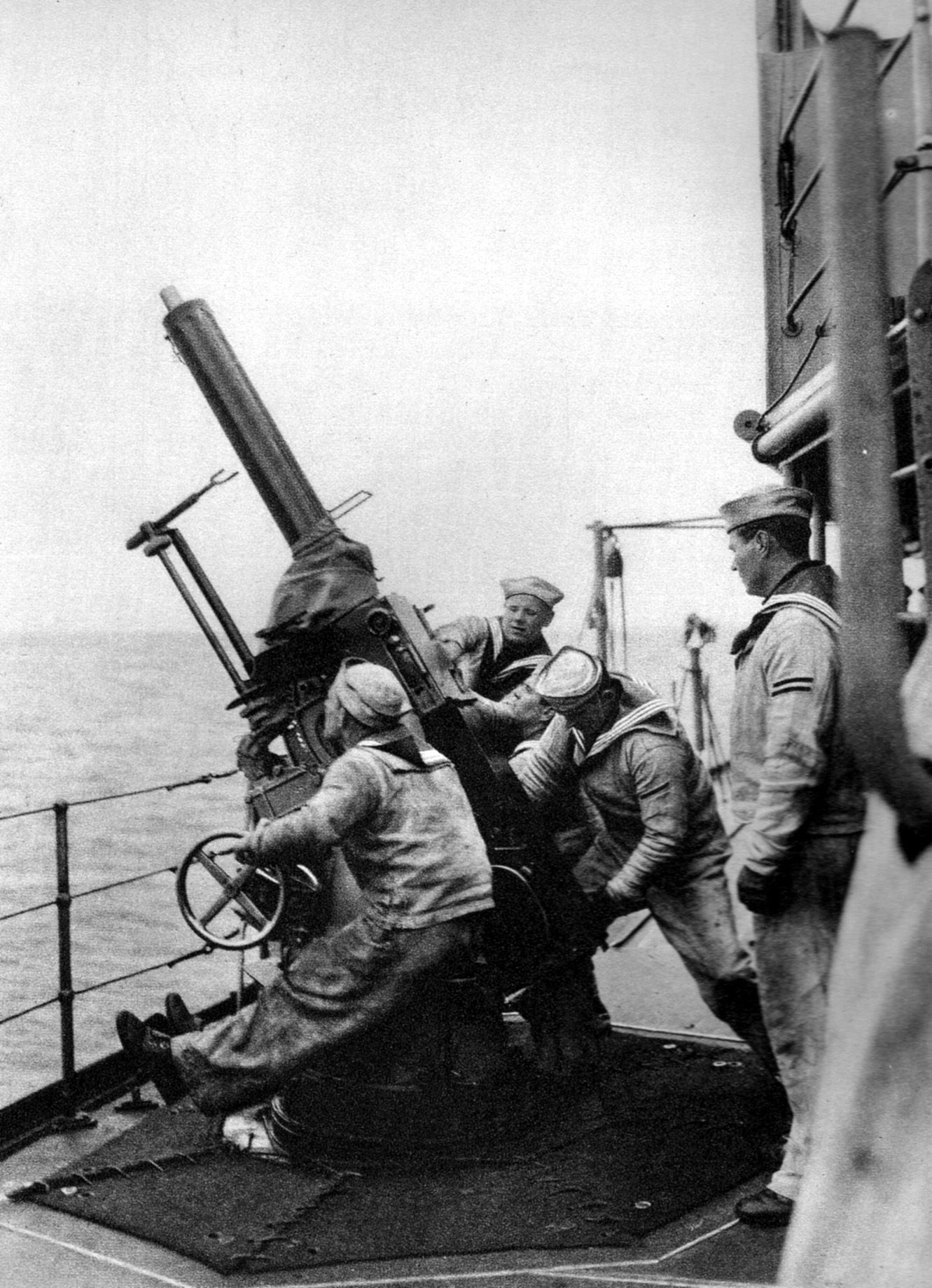 40 mm AA gun (2-pdr Vickers-Armstrong) of the Polish Destroyer ORP Wicher